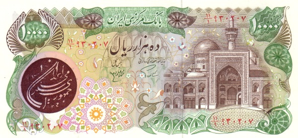 10000 IRR (1981 issue)